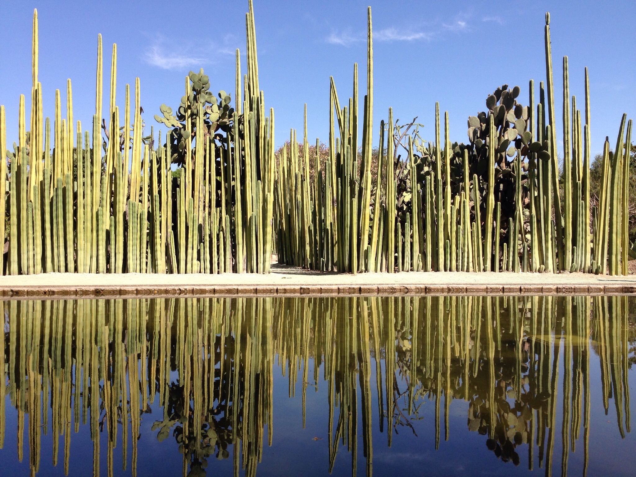 Ethnobotanical Garden of Oaxaca